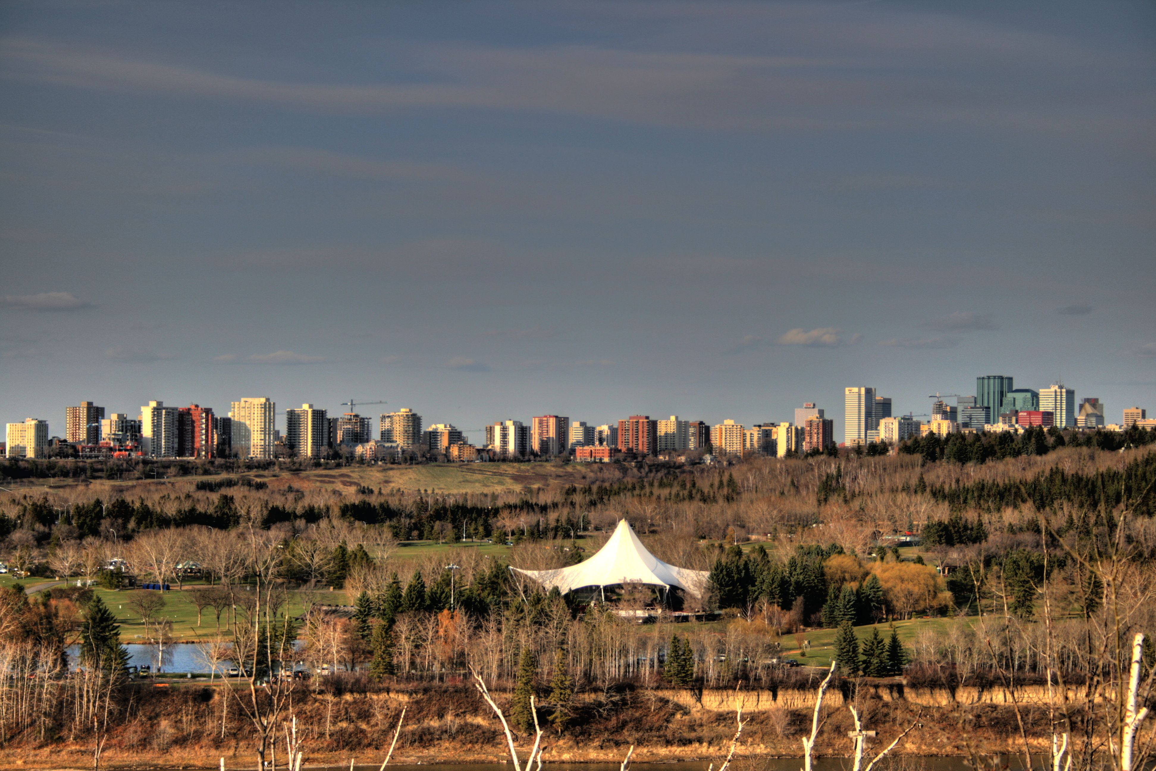 A sunset view of the Heritage Amphitheatre in William Hawrelak Park, Edmonton, Alberta, Canada.